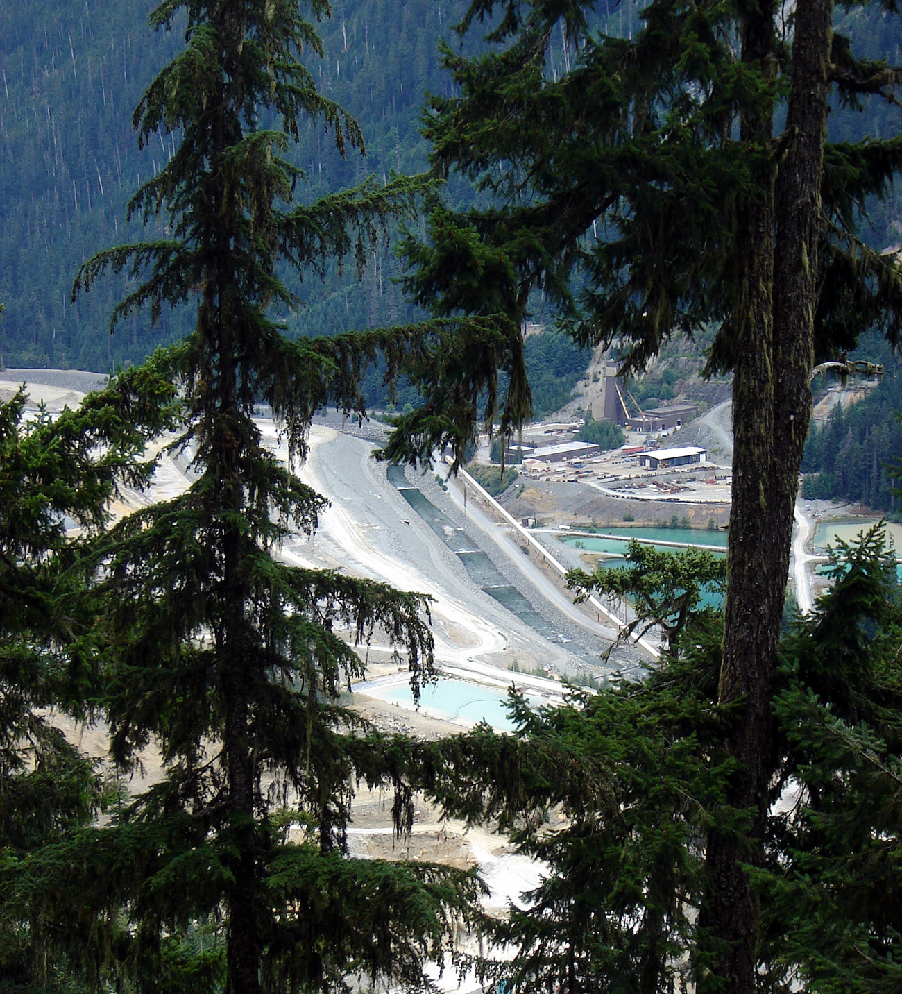 Strathcona-Westmin Provincial Park Picture by me Taken July, 2006